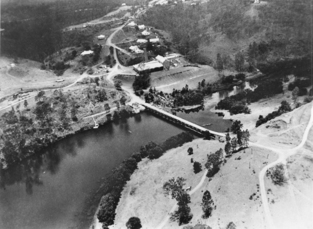 Aerial photograph of the Mount Crosby Pumping Station, ca. 1950.